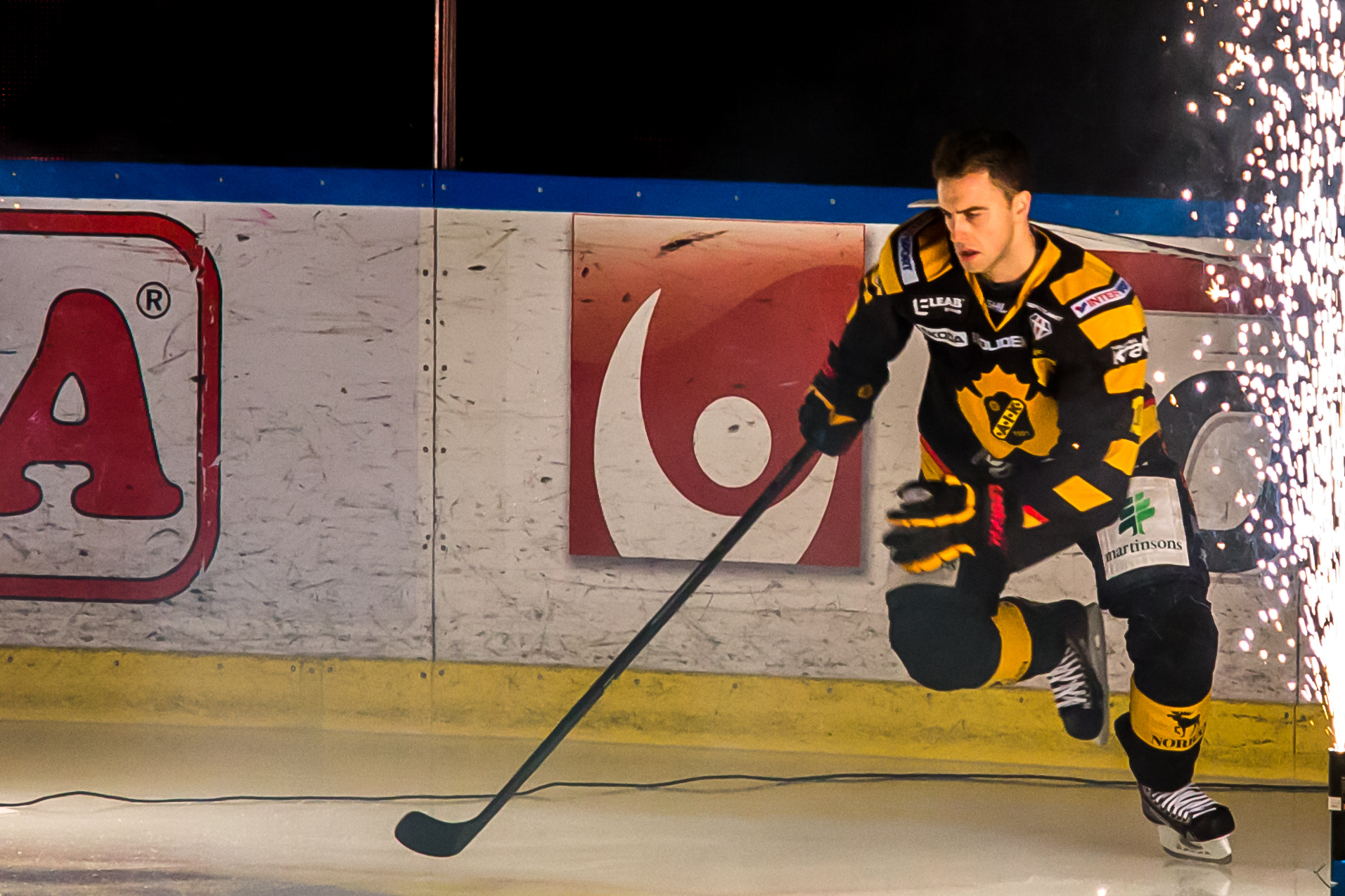 Joakim Lindström in SAIK